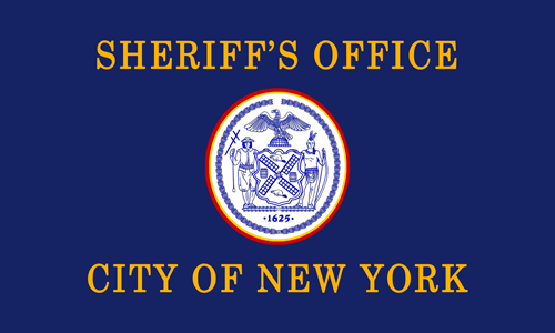 This is the flag of the New York City Sheriff's Office. It features the city seal in blue against a white circle outlined in gold and red against a blue field, with gold lettering above and below spelling "SHERIFF'S OFFICE" and "CITY OF NEW YORK".